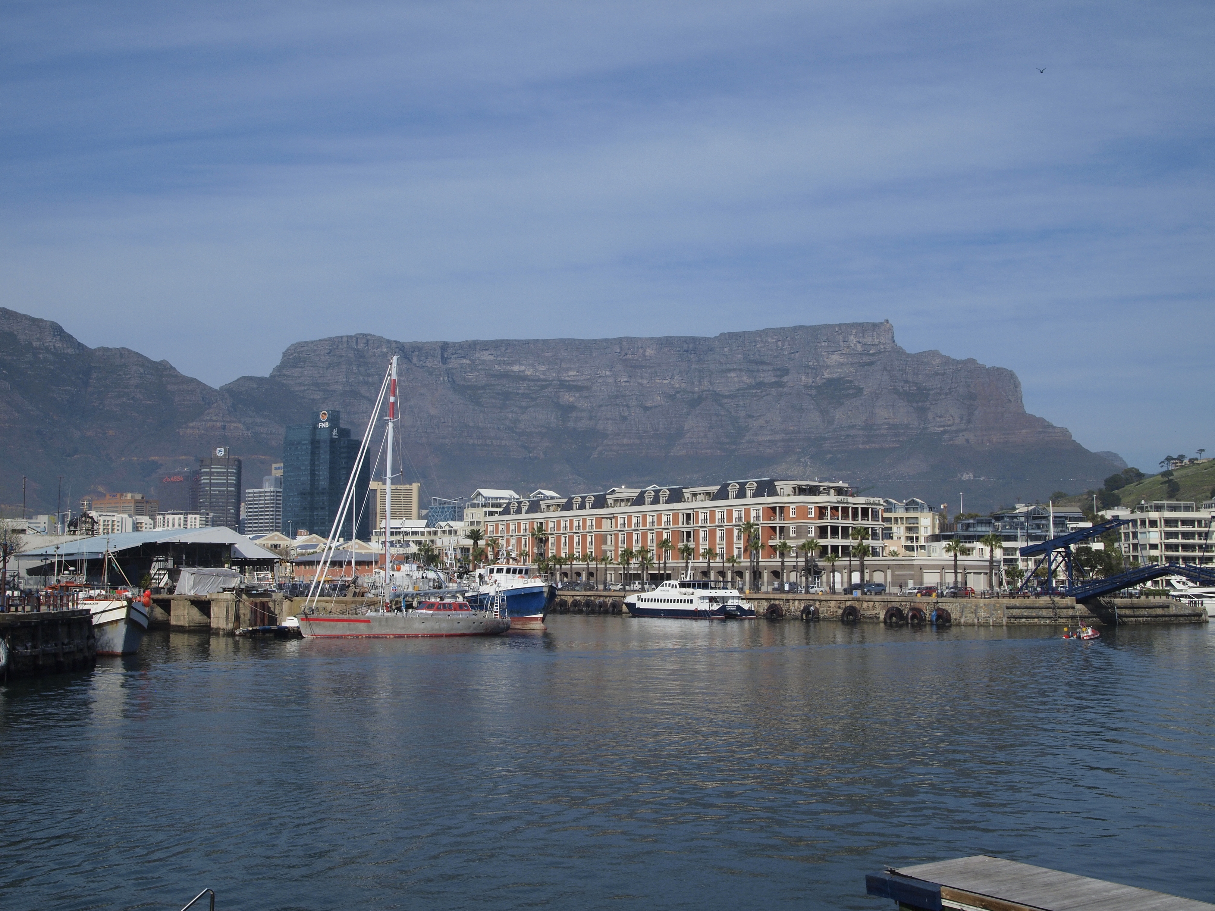 Table Mountain seen from the Victoria & Alfred Waterfront in Cape Town.